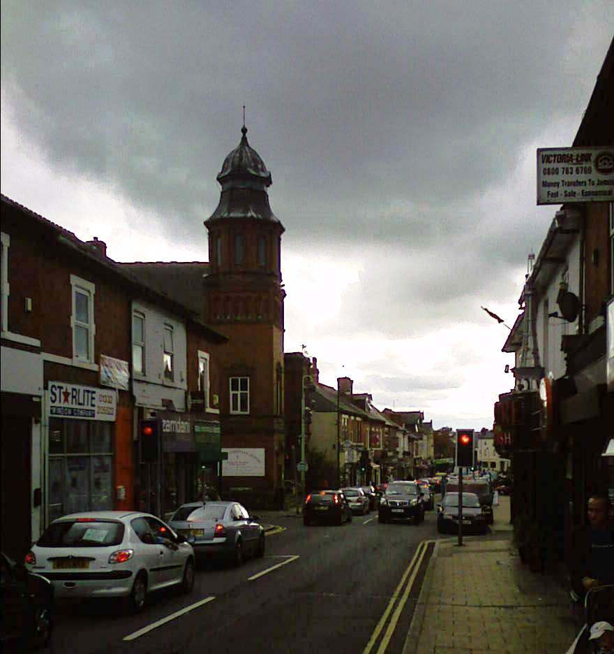 Normanton Road in Normanton - a suburb of Derby